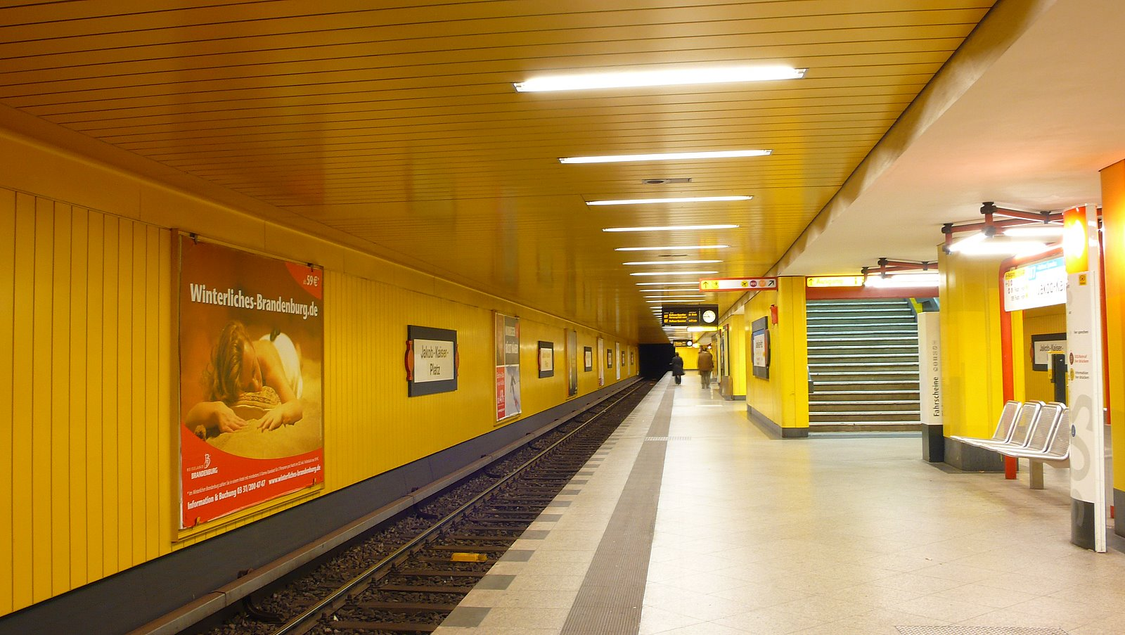 Subway station J. Kaiser Platz Berlin